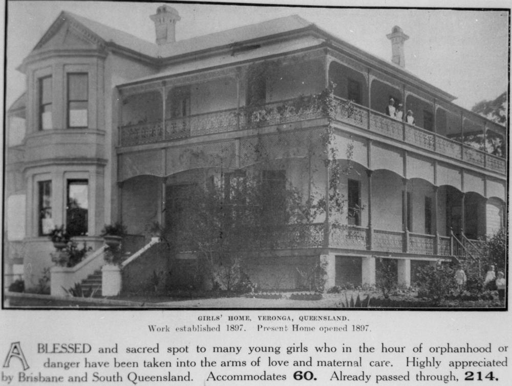 Salvation Army Girl's Home at Yeronga, ca. 1897. See Wikipedia on Rhyndarra